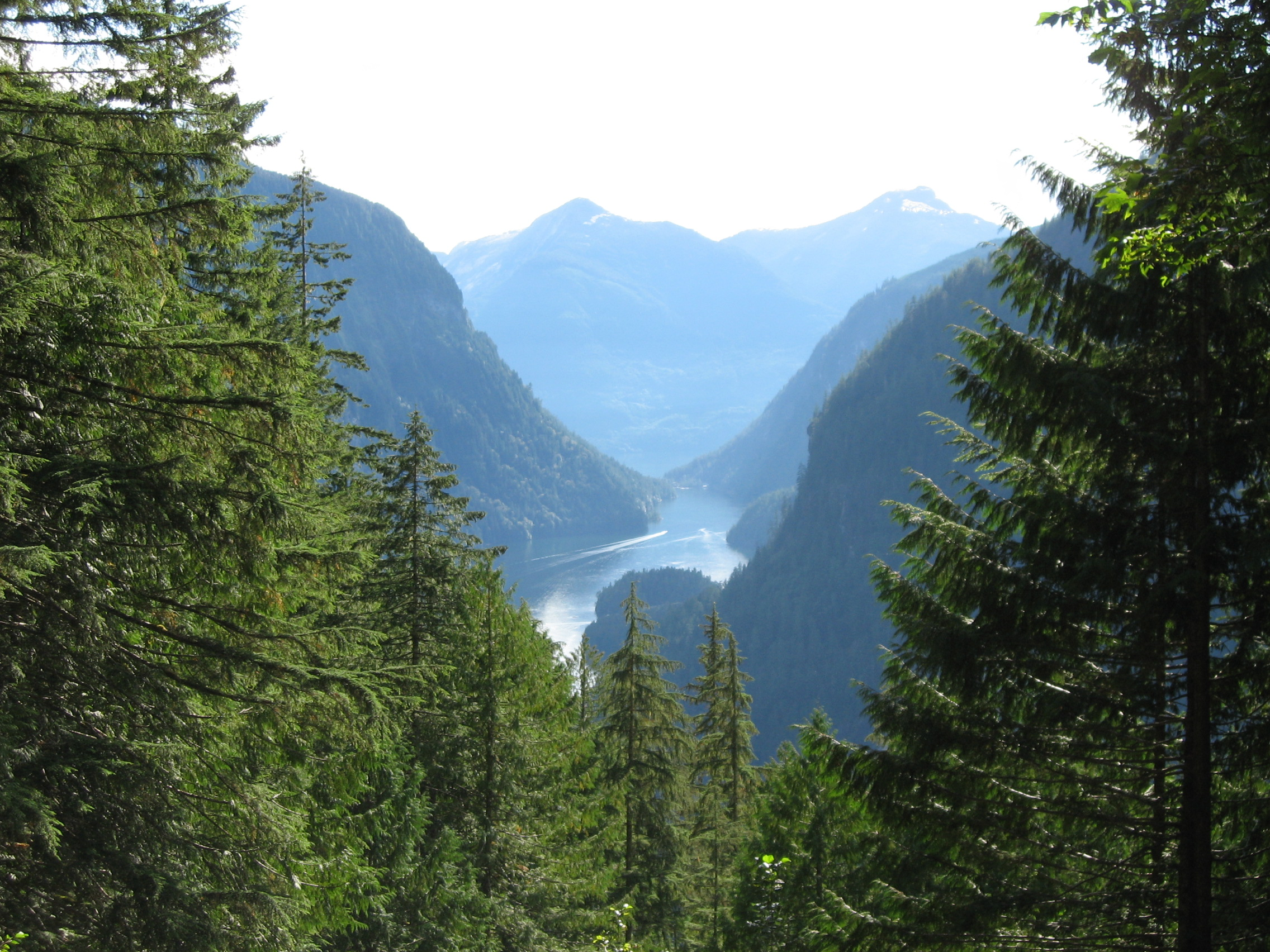 View of Princess Louisa Inlet, British Columbia taken from Trappers Cabin Trail above Chatterbox Falls